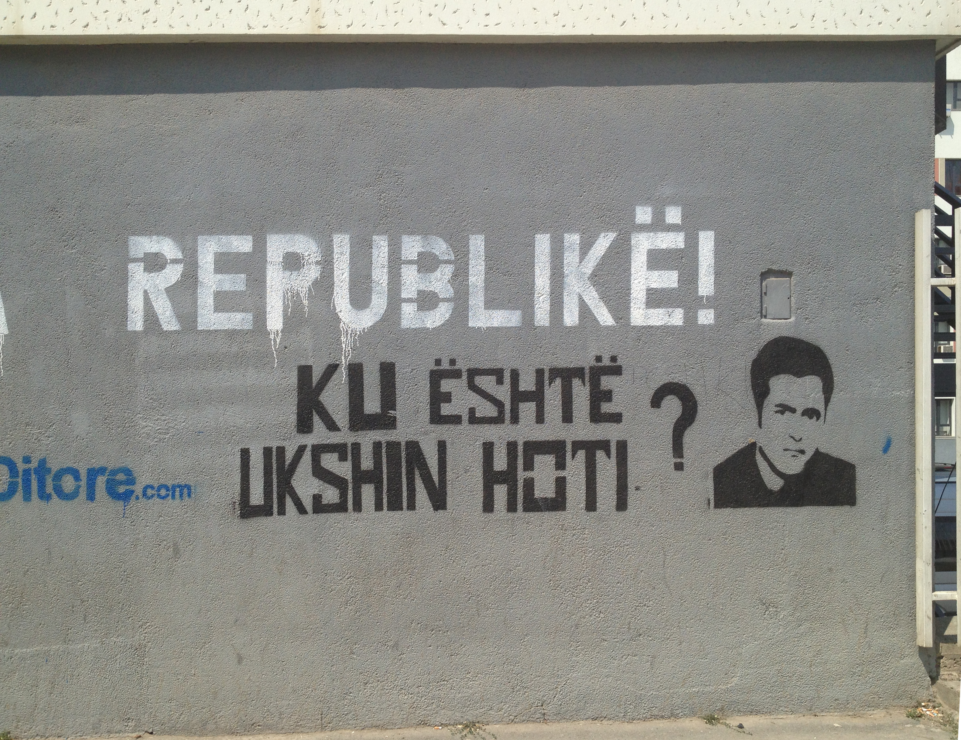 "Where are you, Ukshin Hoti?" Priština, Kosovo.